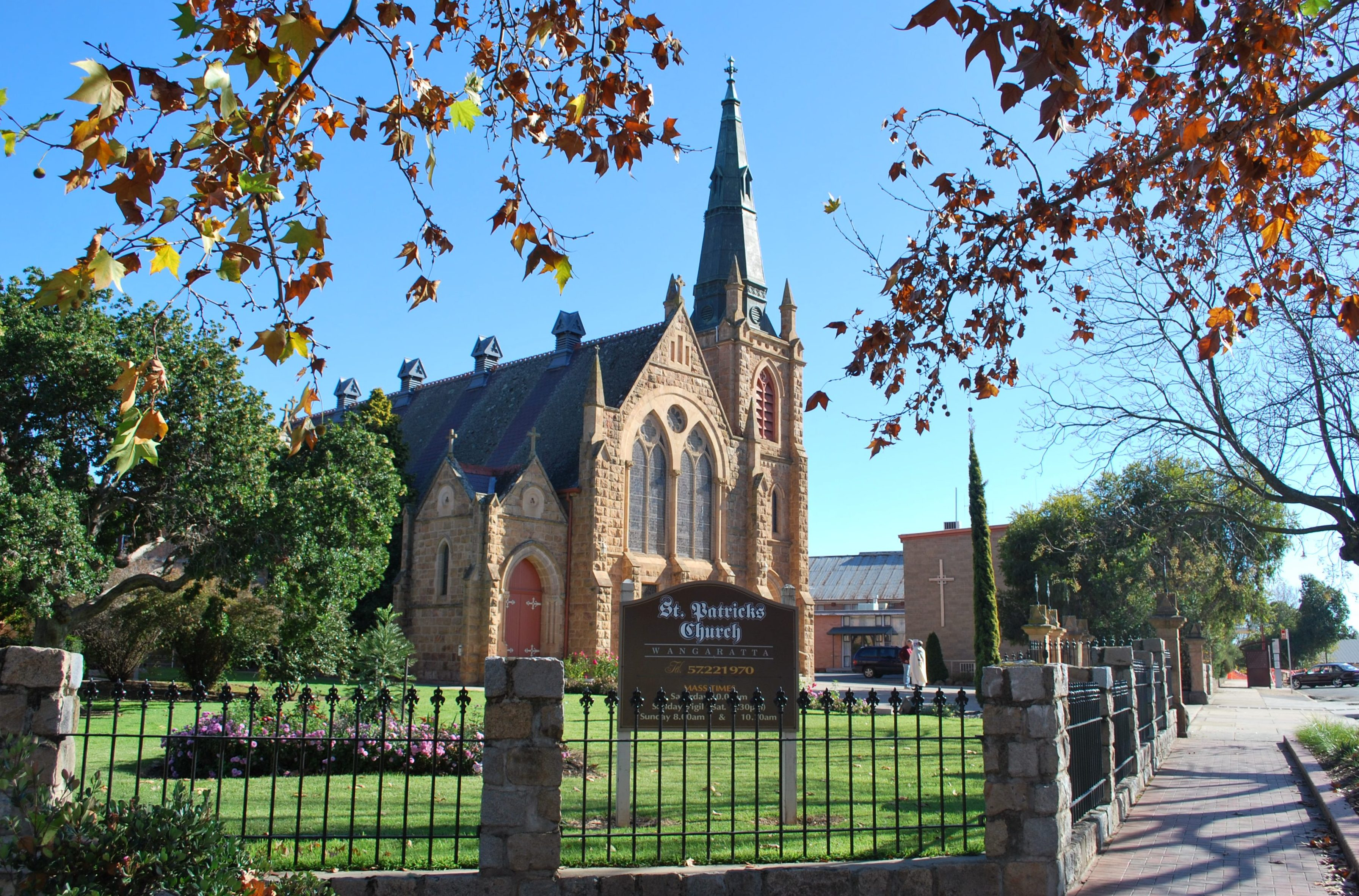 St Patrick's Roman Catholic church at Wangaratta, Victoria